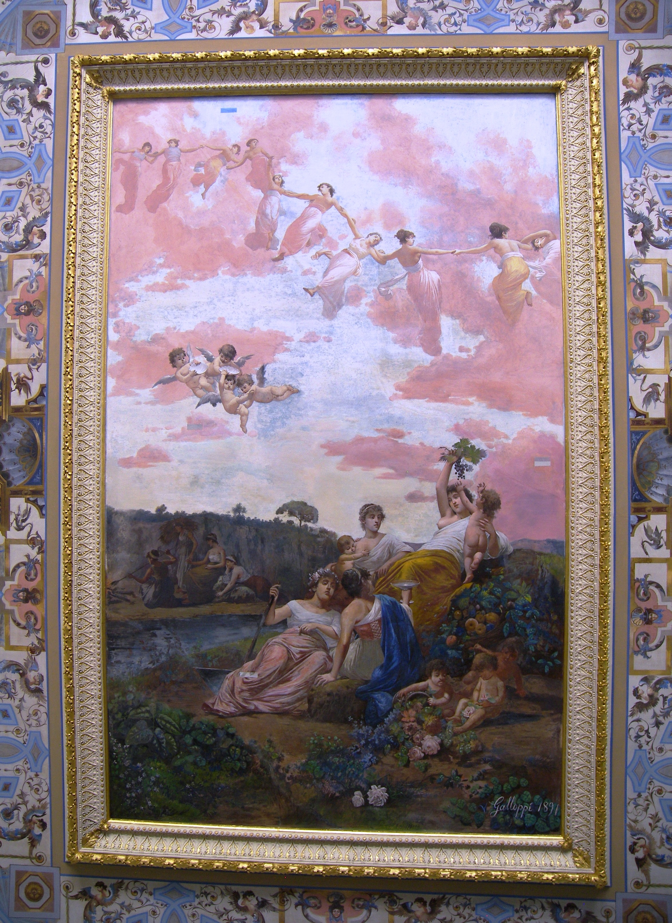 Painting at the entrance ceiling of Corfu Achilleion autocorrected